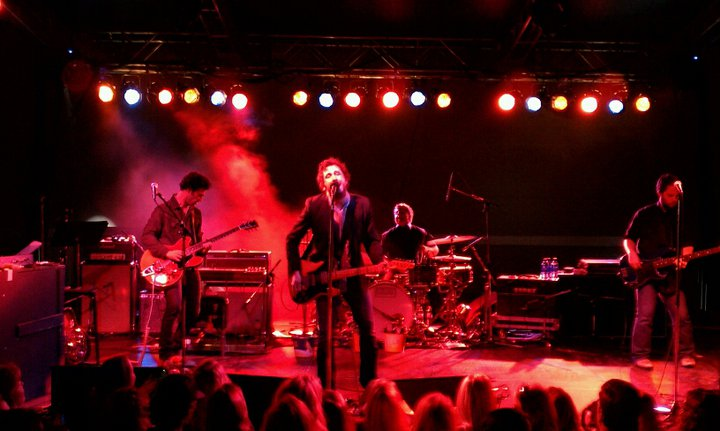 Will Hoge Nashville Concert @ Tin Roof 9.25.10 L to R: Adam Ollendorf, Will Hoge, Sigurdur Birkis, Adam Beard